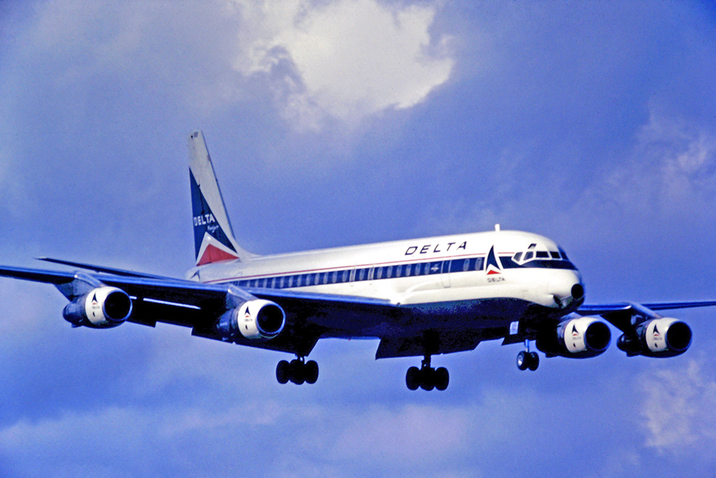 Douglas DC-8-51 N821E of Delta Airlines at Miami International in 1971